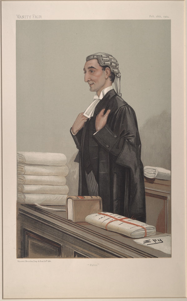 Men of the Day No.908: Caricature of Mr Rufus Isaacs KC MP. Caption reads: "Rufus"